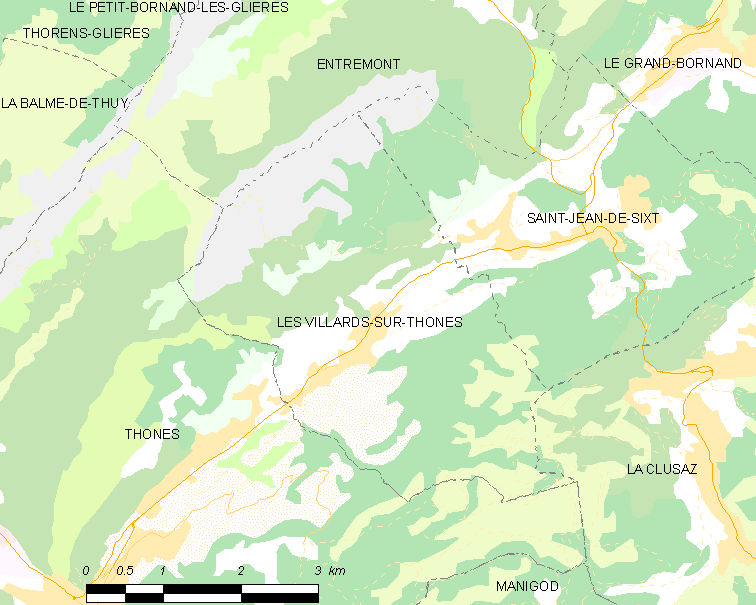 Map of French municipality Les Villards-sur-Thônes